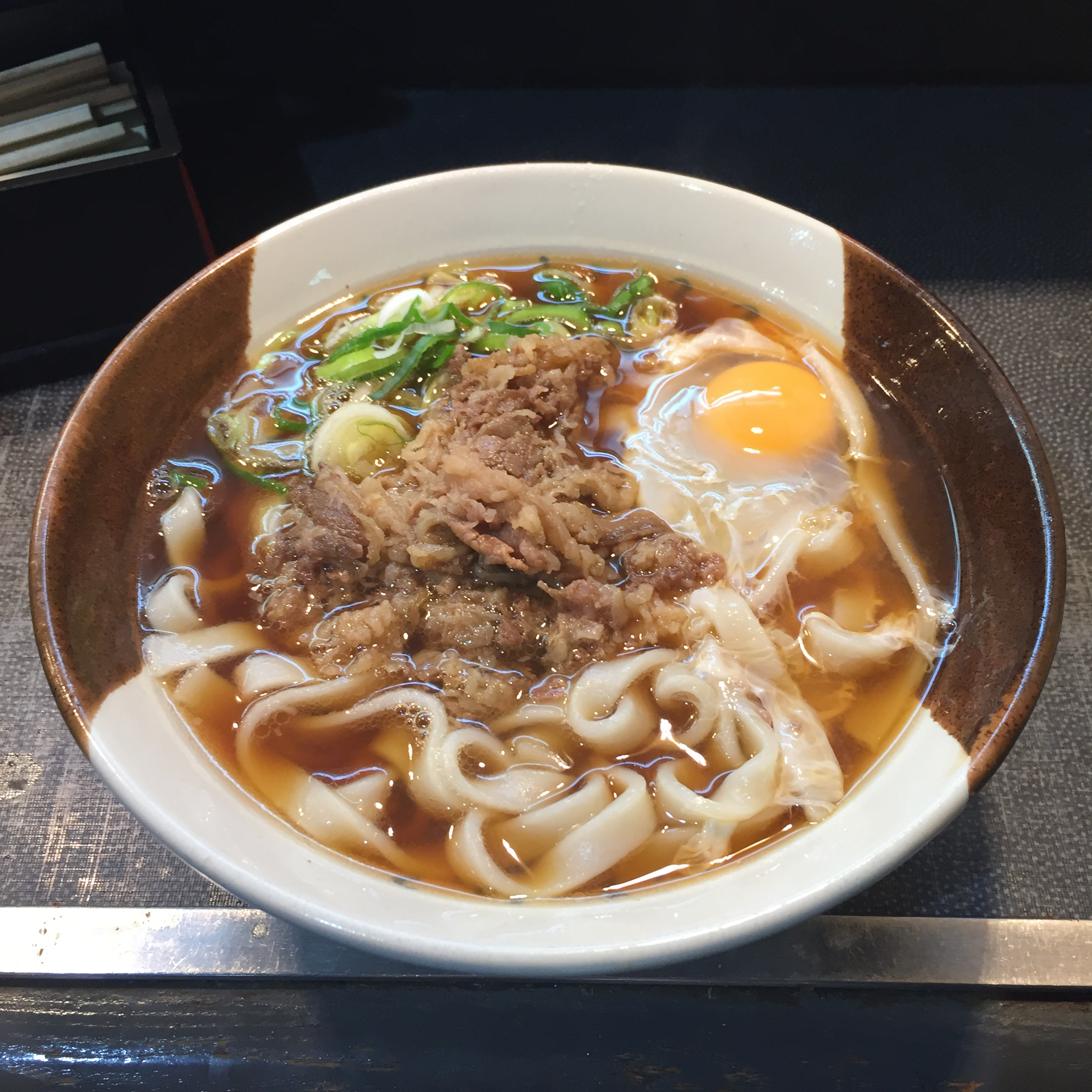 This photo was taken at SUMIYOSHI, the udon noodle stand-bar in the Shinkansen platform of Nagoya Station.